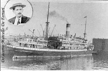 Lloyd Brasileiro 6,082 GRT passenger steamship Uberaba. She was built in 1911 in Hamburg as Henny Woermann for Woermann-Linie. Brazil seized her in 1917. In 1920 Lloyd Brasiliero took over her management and renamed her Uberaba. In 1921 she ran aground and was wrecked on the Manoel Luis shoal on the north coast of Brazil.